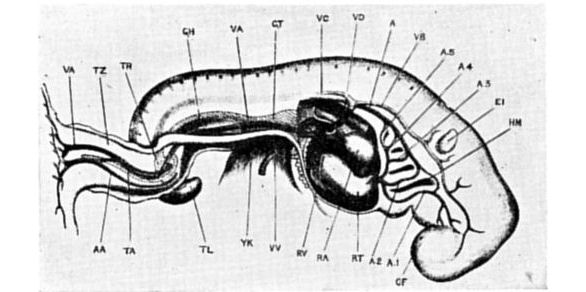 Fig. 9. Human embryo showing gill slits and aortic arches. (After His; from Marshall.)